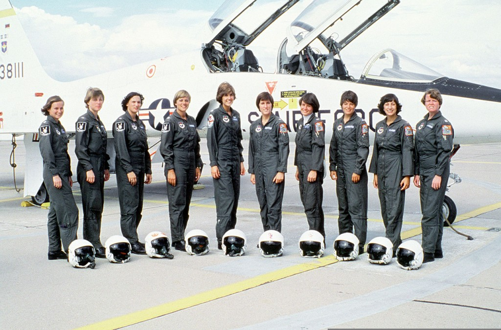 USAF Undergraduate Pilot Training (UPT) Class 77-08 of Williams Air Force Base, May 1977.